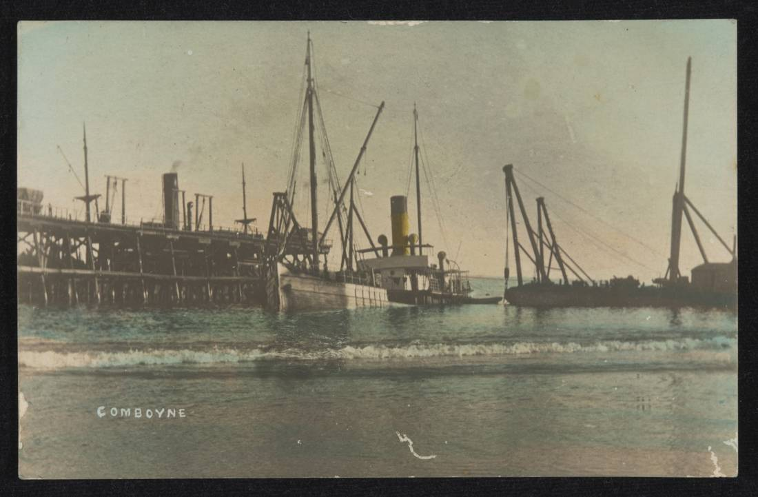 Comboyne being salvaged in Wollongong Harbour 1